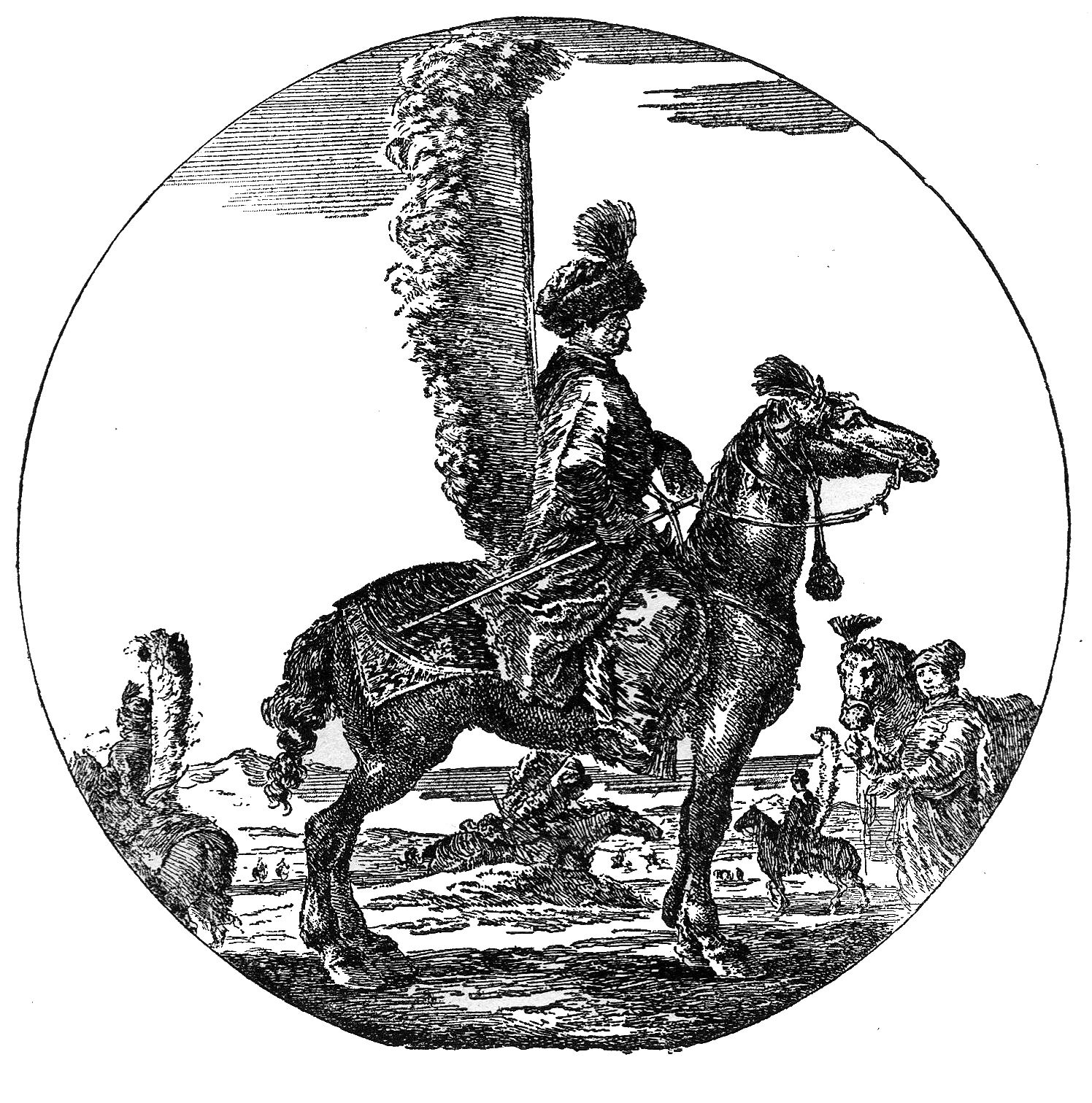 Polish winged hussar, by Stefano Della Bella (1610-1664)